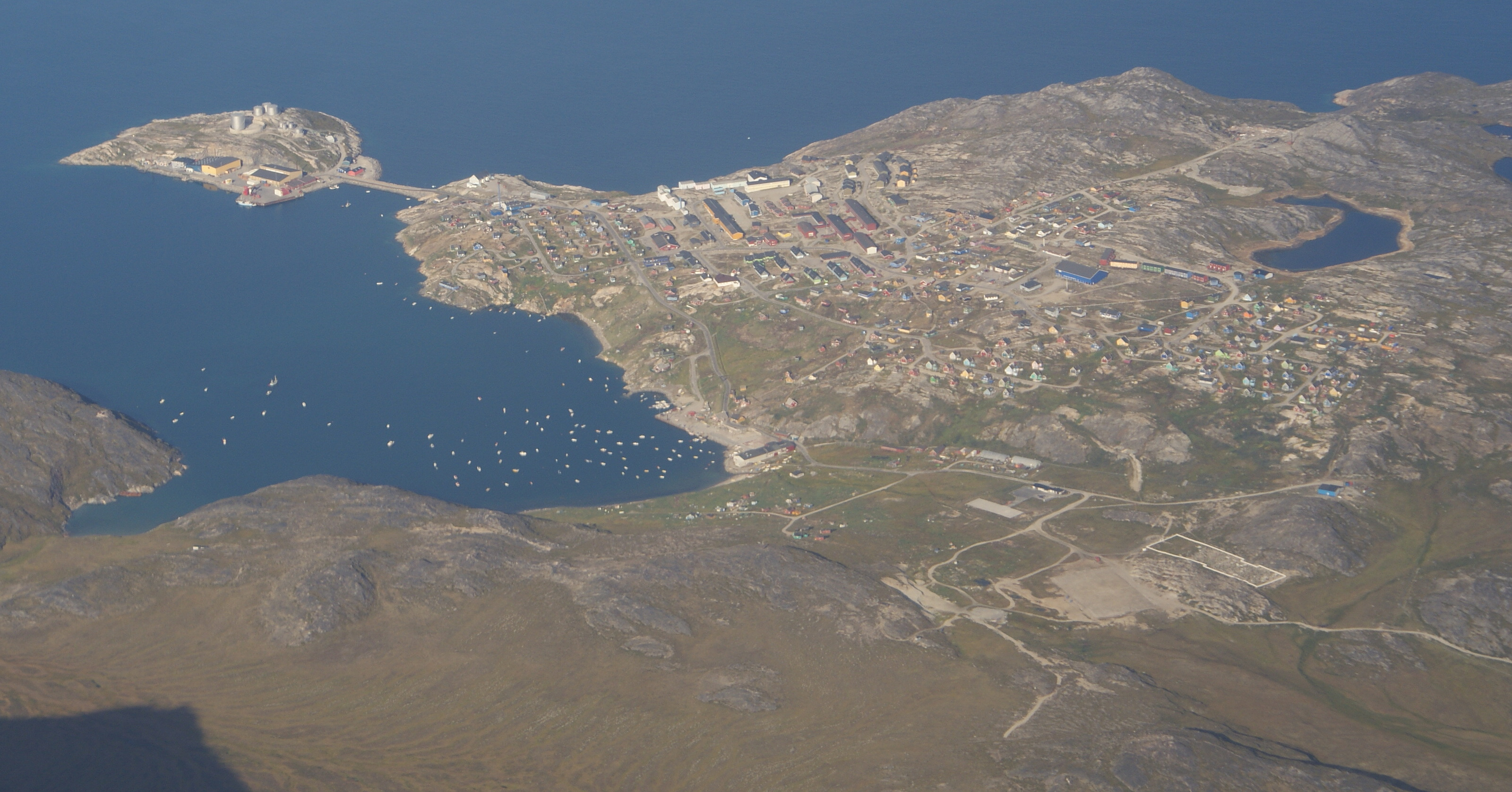 Aerial view of Qasigiannguit, Disko Bay, Greenland. Photographed from the Air Greenland de Havilland Canada Dash-7 during the Ilulissat-Kangerlussuaq flight.